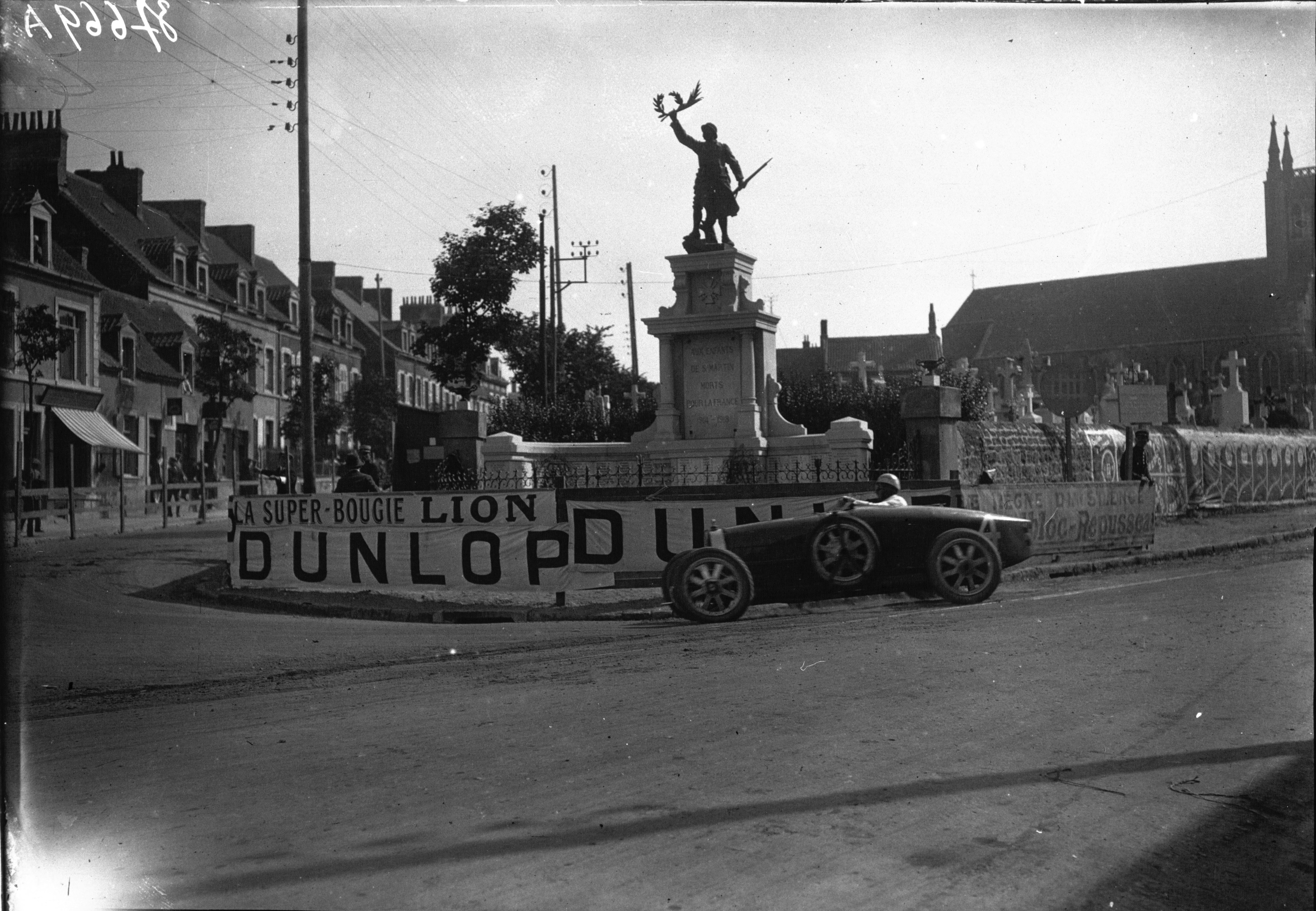 George Eyston at the 1926 Boulogne Grand Prix.